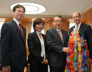 John Roos, Ambassador to Japan, presented a set of 1,000 paper cranes folded by the Nuclear Regulatory Commission employees to express support to Masaharu Nakagawa, Minister of Education, Culture, Sports, Science and Technology, Yūko Mori, Senior Vice Minister of Education, Culture, Sports, Science and Technology, and Takashi Kii, Parliamentary Secretary for Education, Culture, Sports, Science and Technology, at the Ministry of Education, Culture, Sports, Science and Technology in Chiyoda Ward, Tōkyō Metropolis on October 6, 2011.